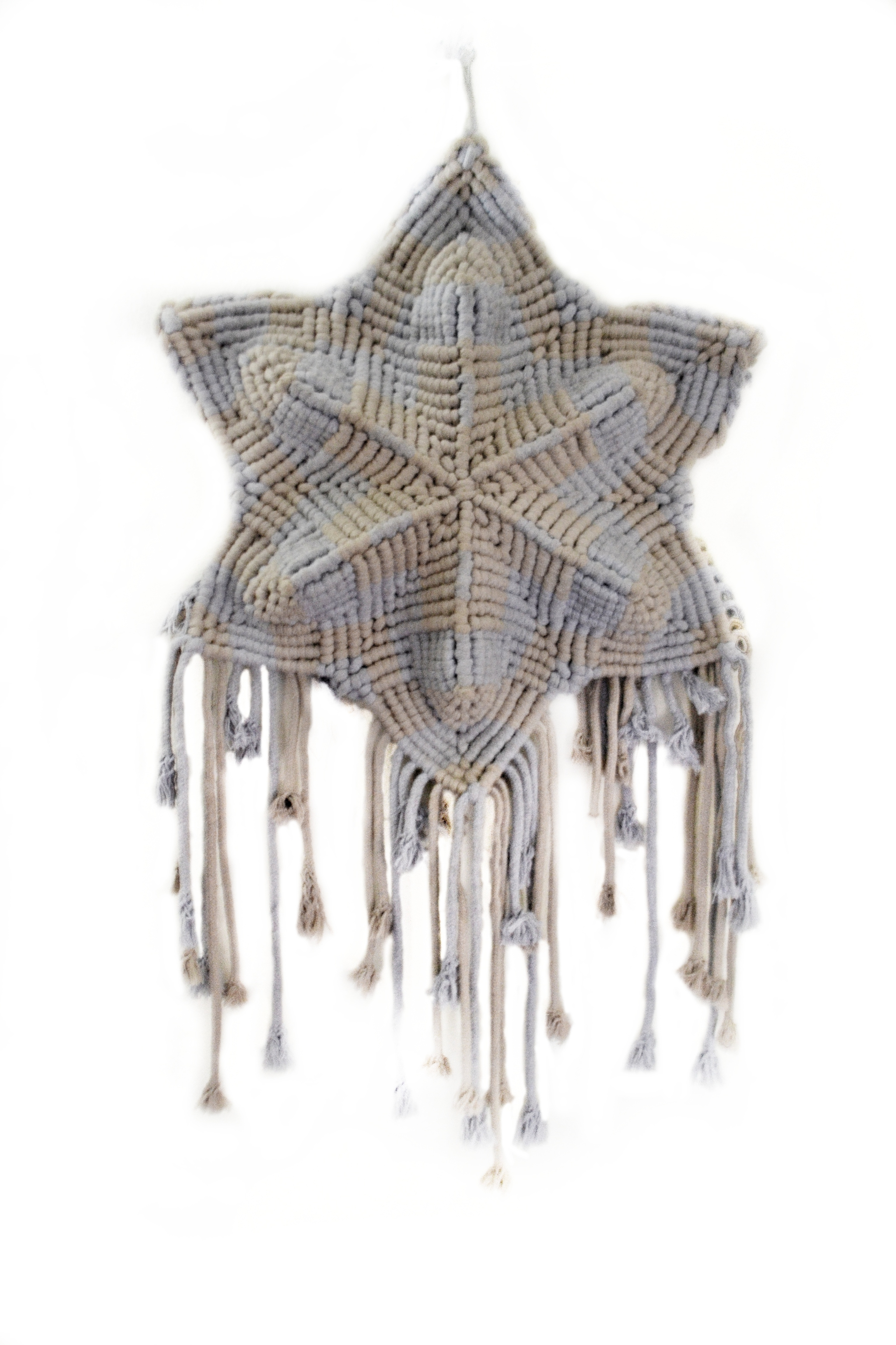 Macrame Pattern